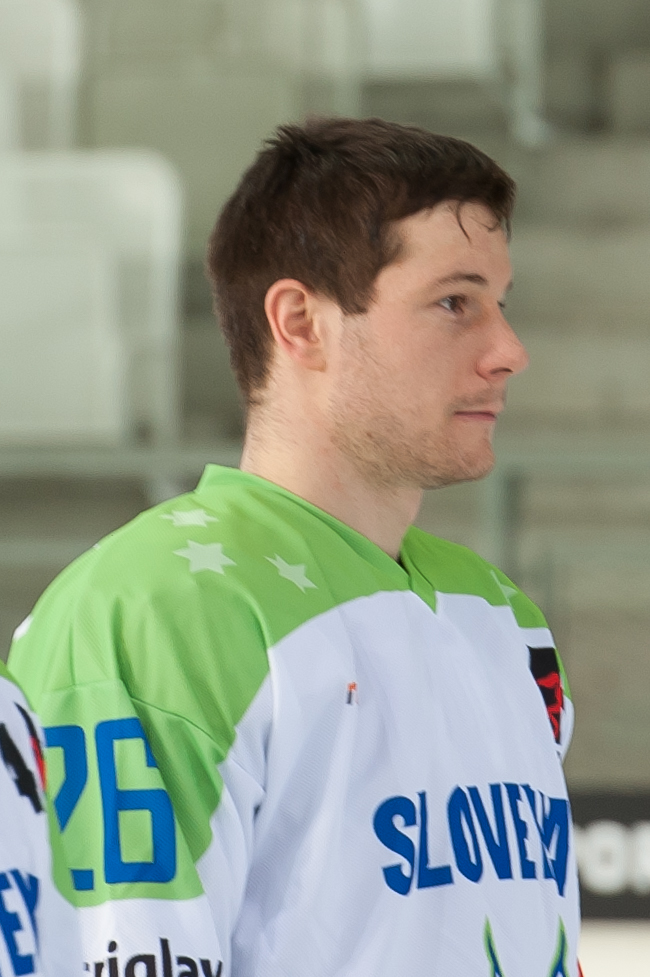 Euro Ice Hockey Challenge Vienna, February 7, 2015, Italy vs. Slovenia